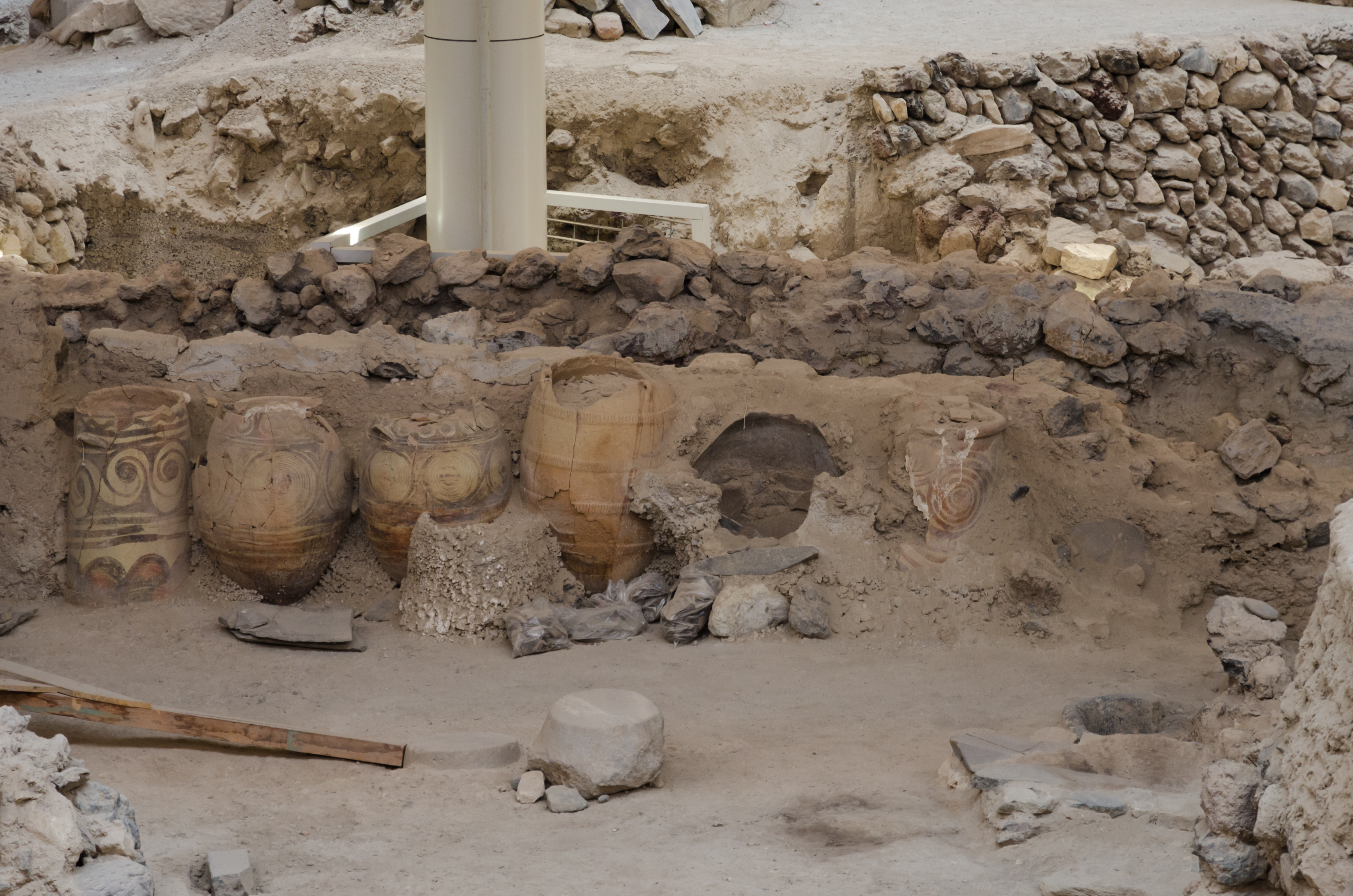 Akrotiri is the name of an excavation site of a Minoan Bronze Age settlement on the Greek island of Santorini, associated with the Minoan civilization due to inscriptions in Linear A, and close similarities in artifact and fresco styles. Akrotiri was buried by the widespread Theran eruption in the middle of the second millennium BC (during the Late Minoan IA period); as a result, like the Roman ruins of Pompeii after it, it is remarkably well-preserved.